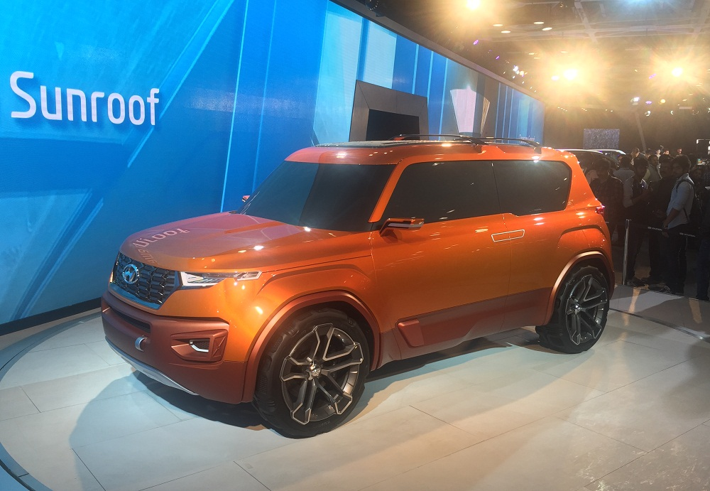 Hyundai Carlino Concept at Auto Expo 2016